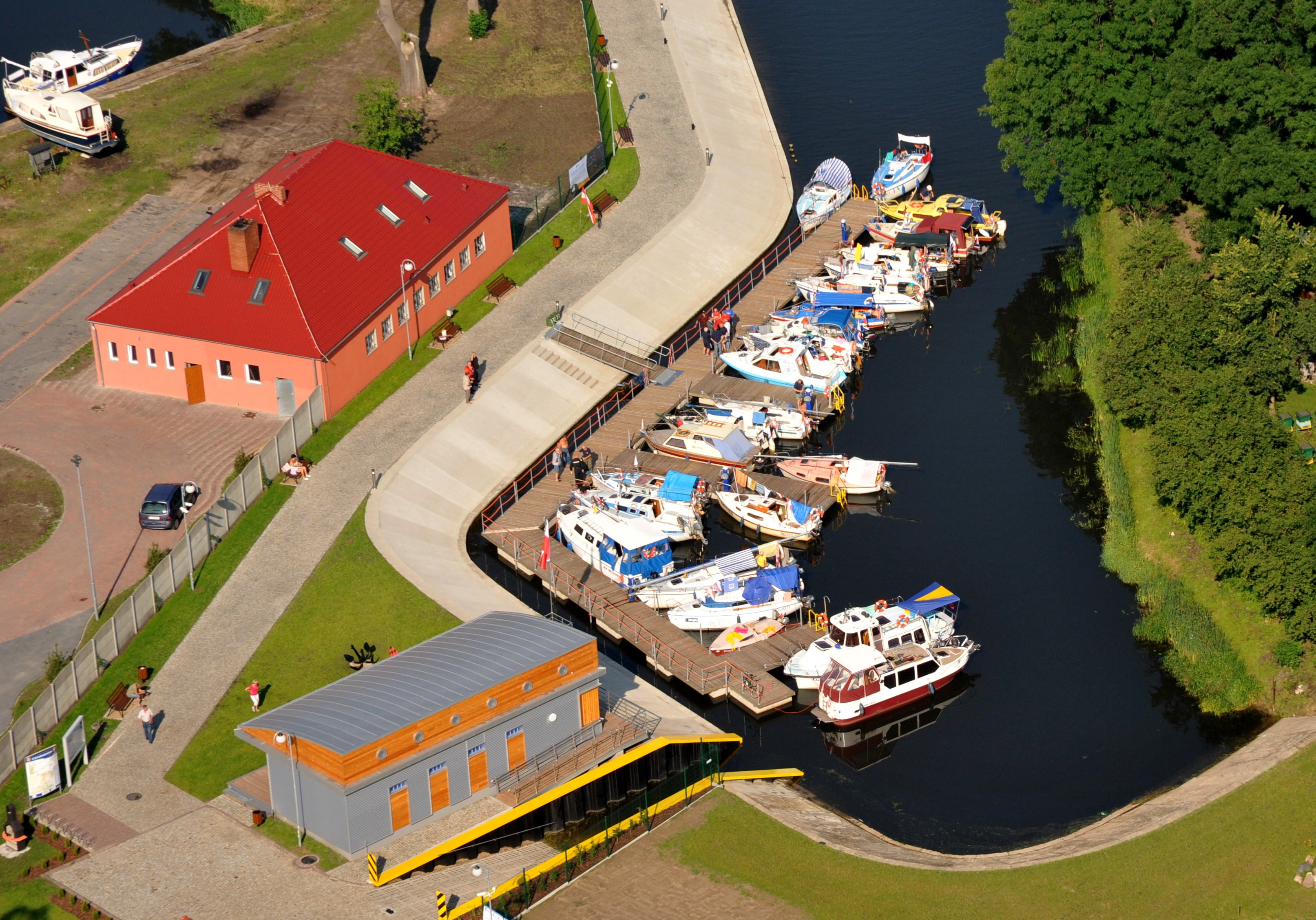 Marina